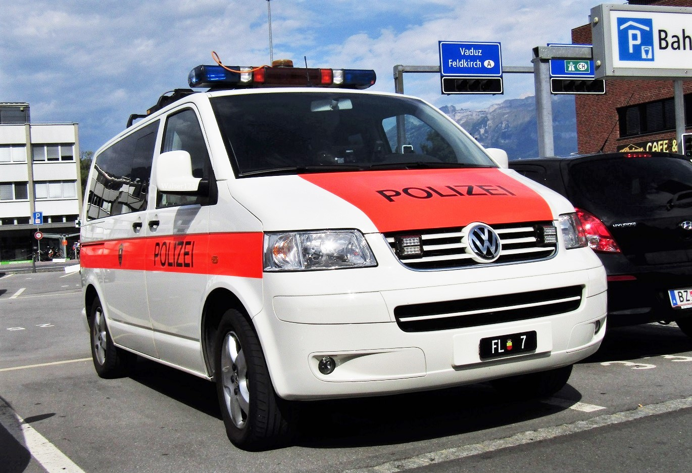 FL 7 Liechtenstein police van.FL 1 , 2 , 3 , 4 , 6 , 8 and 10 are assigned to the princely family.FL 5 is for the head of government. All other numbers up to and including FL 20 are reserved for the government and the police.